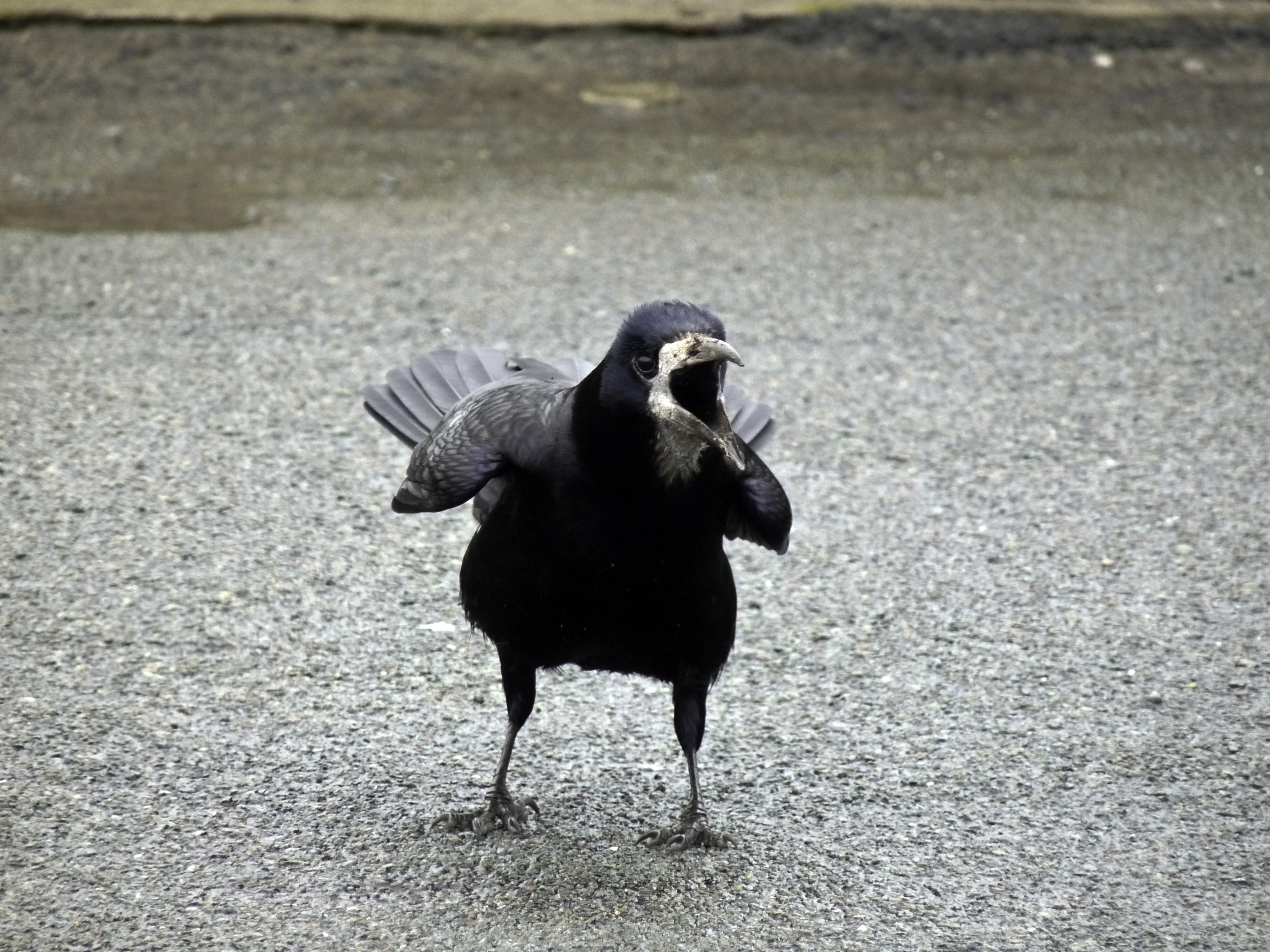 Latin name Corvus frugilegus Family Crows and allies (Corvidae) Overview Bare, greyish-white face, thinner beak and peaked head make it distinguishable... Where to see them ... When to see them All year round. What they eat Worms, grain and insects